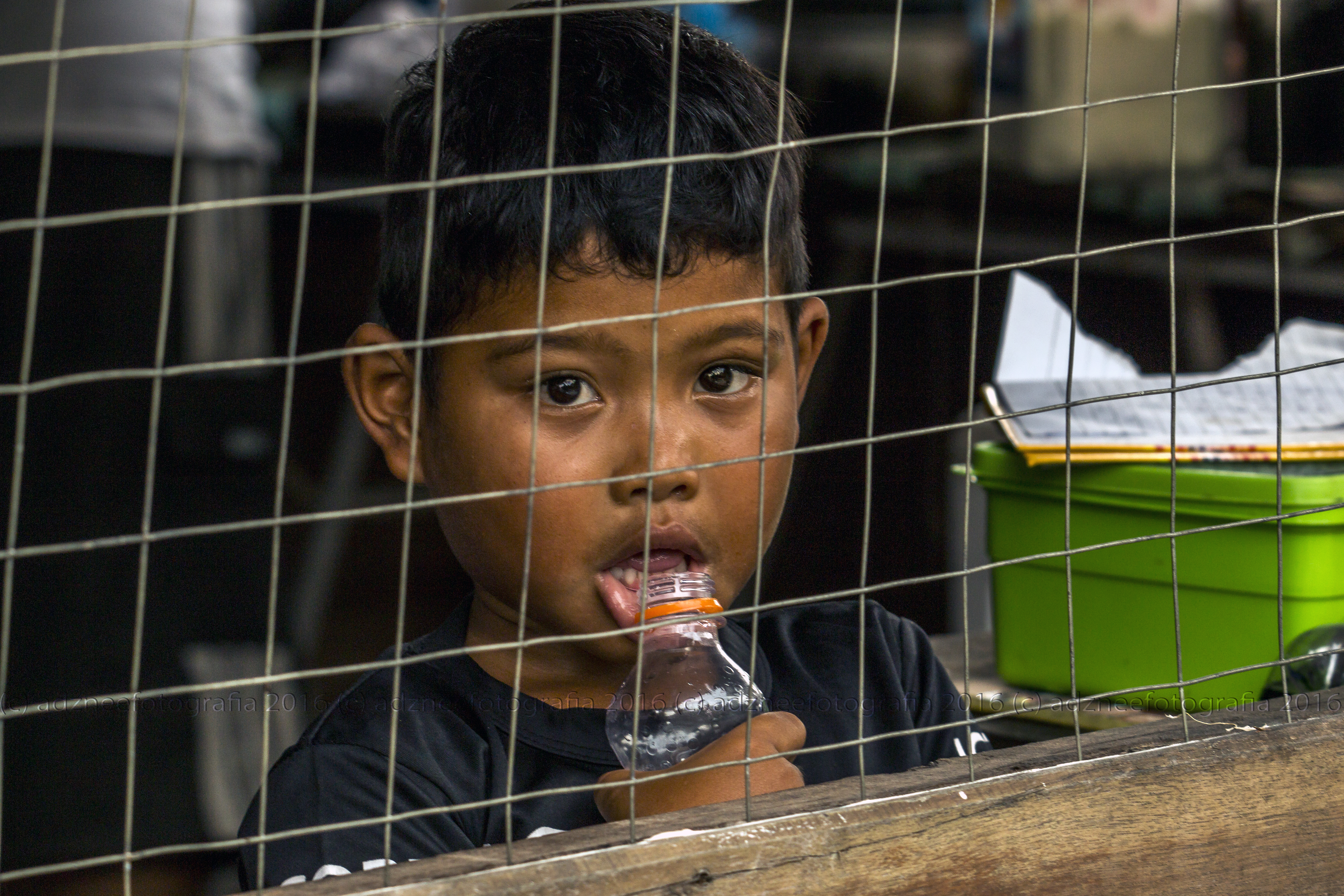 The Orang Seletar are one of the nineteen Orang Asli people groups living in Peninsular Malaysia. The Malaysian government classifies them under the Aboriginal Malay (officially called Proto-Malay) subgroup. Nearly half of the Orang Seletar ethnic group of 1,700, also live in northern Singapore. They are a maritime people, the descendants of the Orang Laut or sea people who constituted the original navy of the Malaccan Sultanate and played a pivotal role in the region's history. Originally from the Spice Islands in Indonesia, five hundred years ago they roamed the Straits of Malacca in bands, raiding, burning, and pillaging. They were the old pirates of South East Asia. The Orang Seletar have settled down in the states of Johor and Selangor. They no longer live in boats but in huts built on water. In some places, they live in houses built on land.